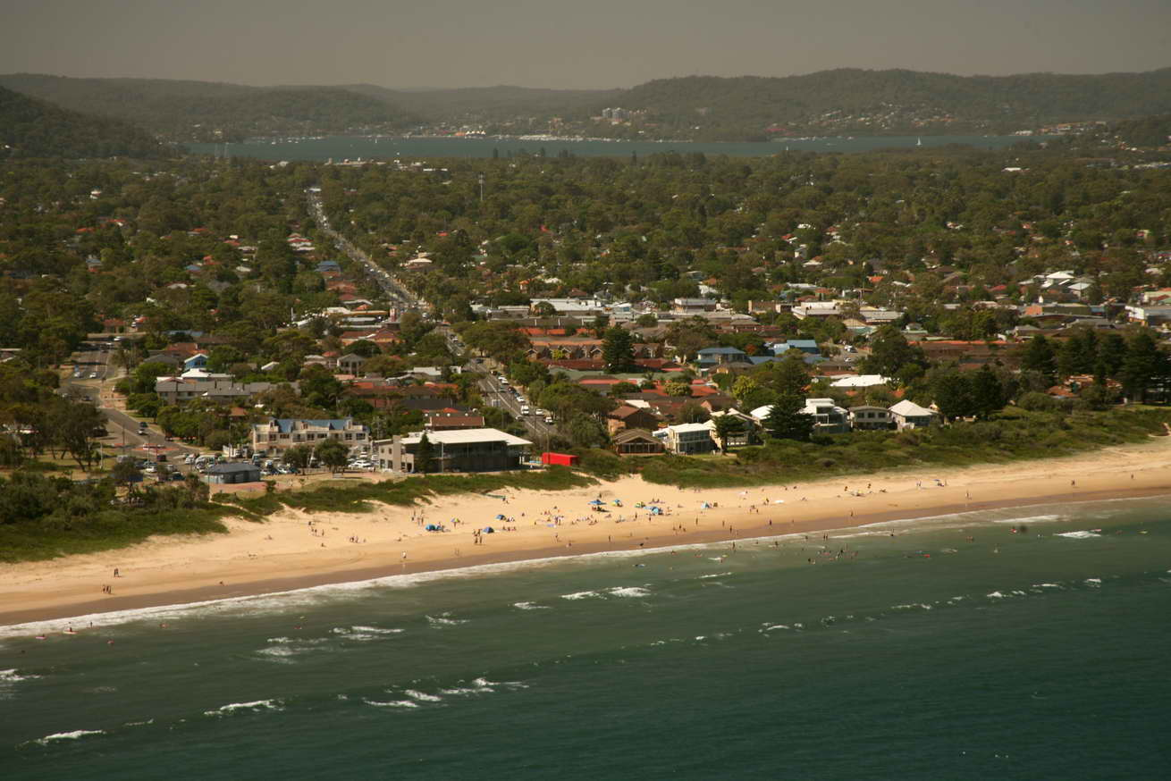 Umina Beach from Mt Ettalong